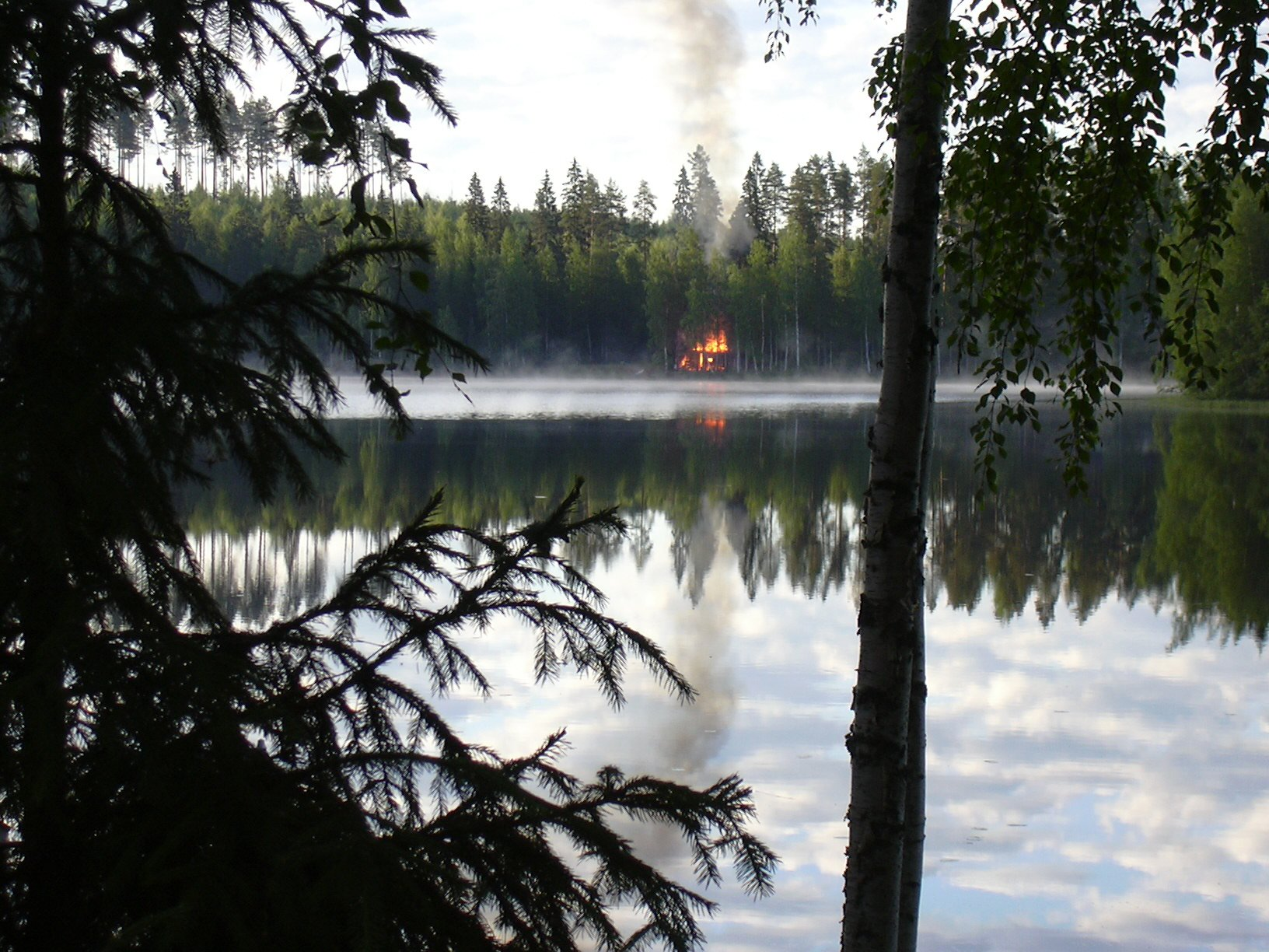 Burning sauna, near Mikkeli, Finland